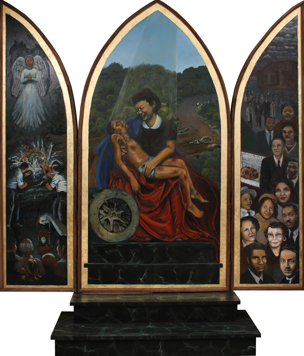 The Emmett Till Memorial Triptych by artist, Sandra Hansen.